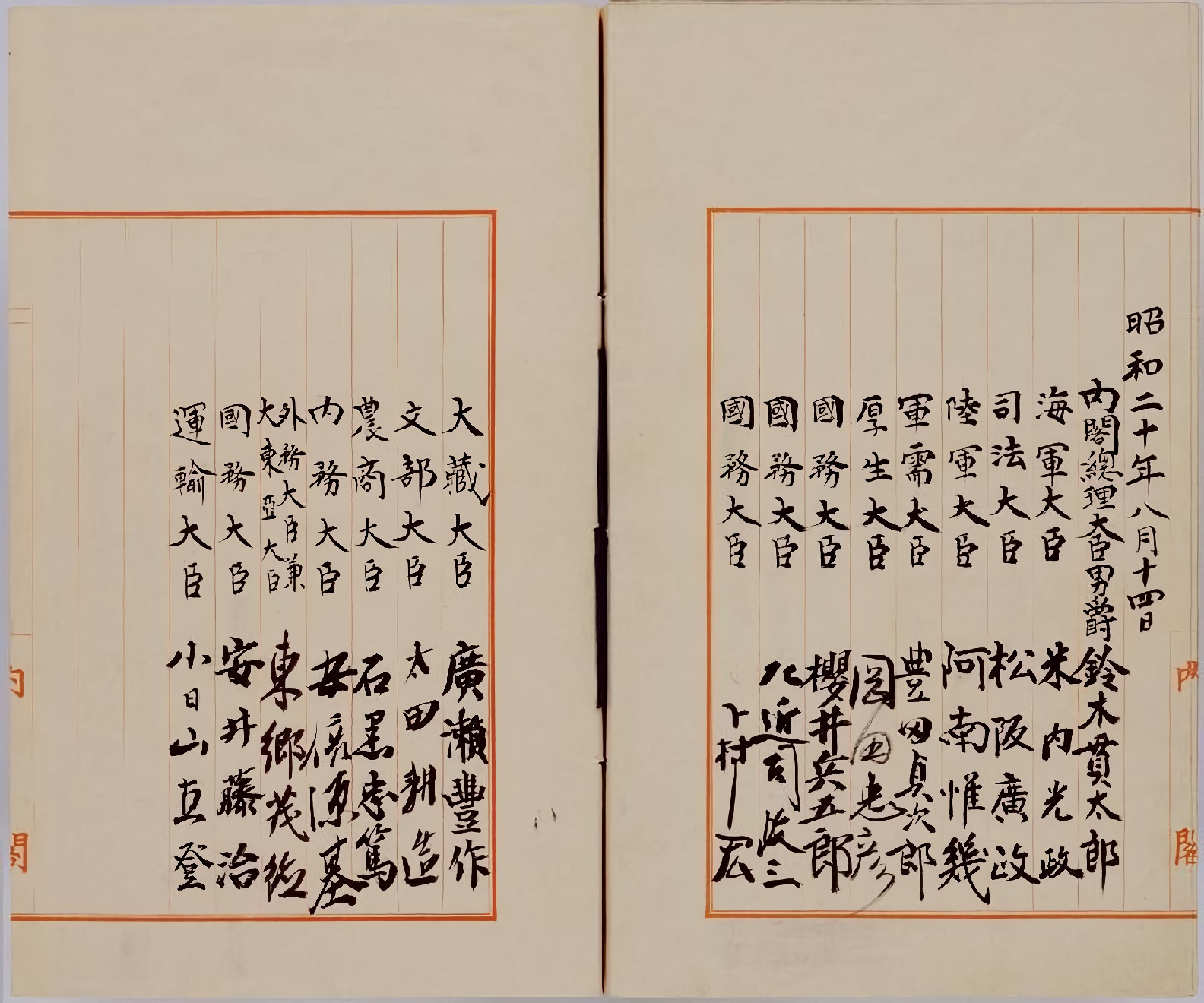 The Imperial rescript ending the War